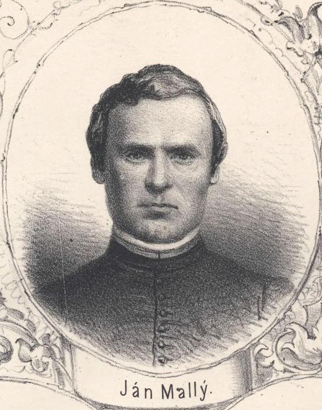 Portrait of Ján Mallý-Dusarov (1829 - 1902), Slovak journalist, publisher and priest. Cropped from a gallery of famous Slovaks.